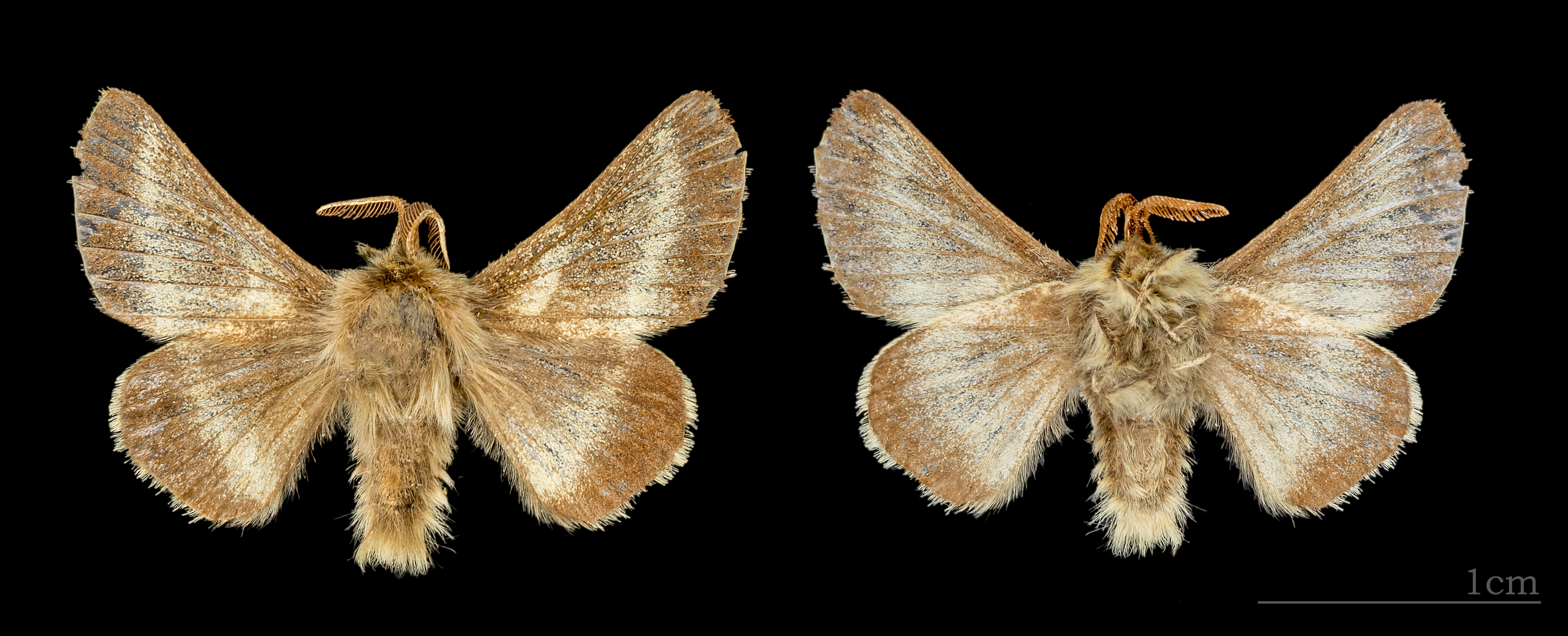 Malacosoma alpicolum - Two views of same specimen